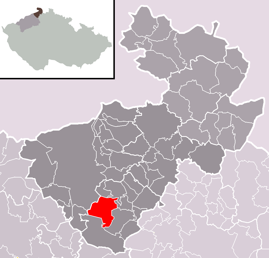 Location of Heřmanov municipality within Děčín District and administrative area of Děčín as a Municipality with Extended Competence.